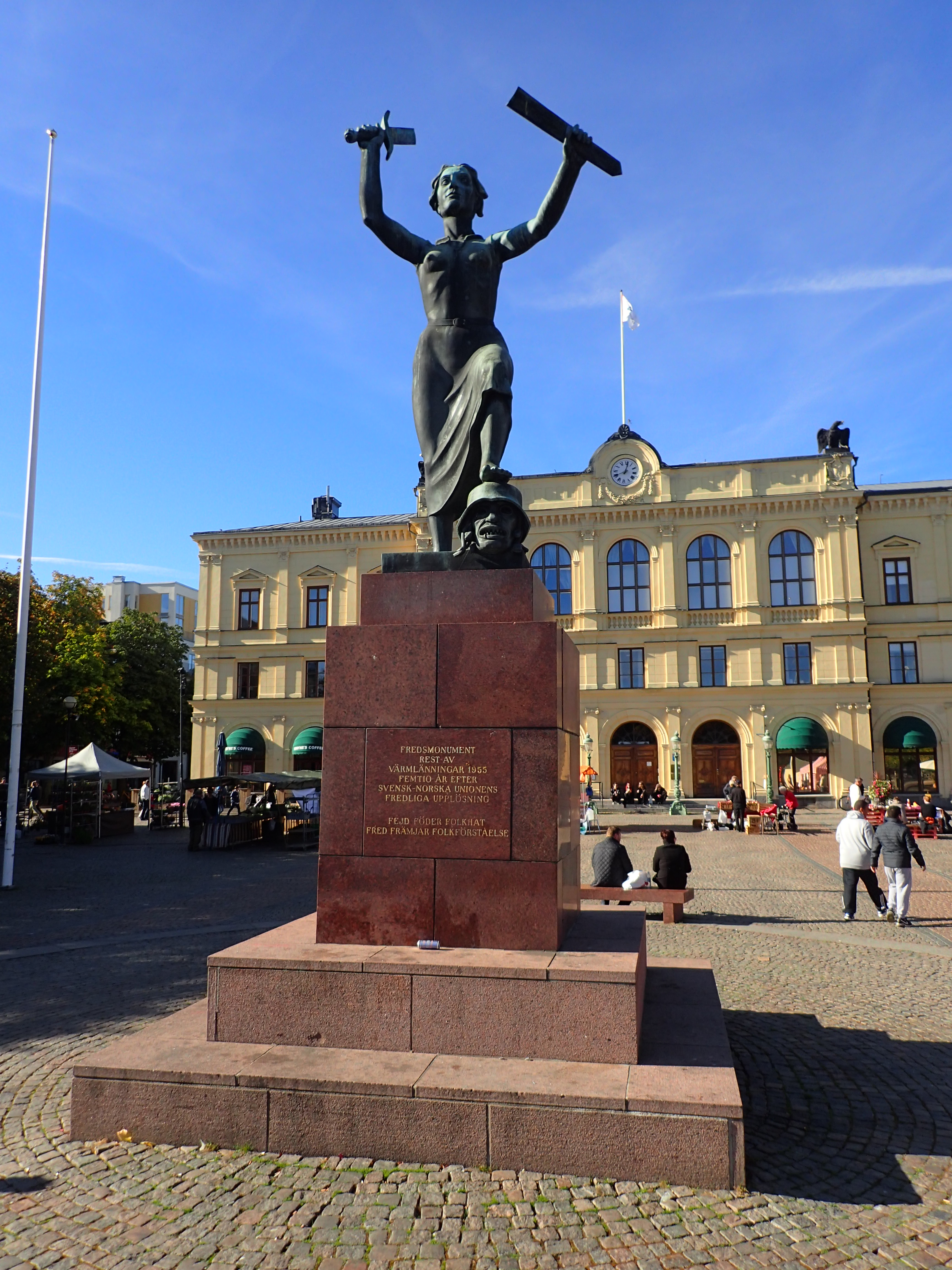 Fredsmonumentet på Stora torget i Karlstad. Invigt 1955. Utfört av Ivar Johnsson.